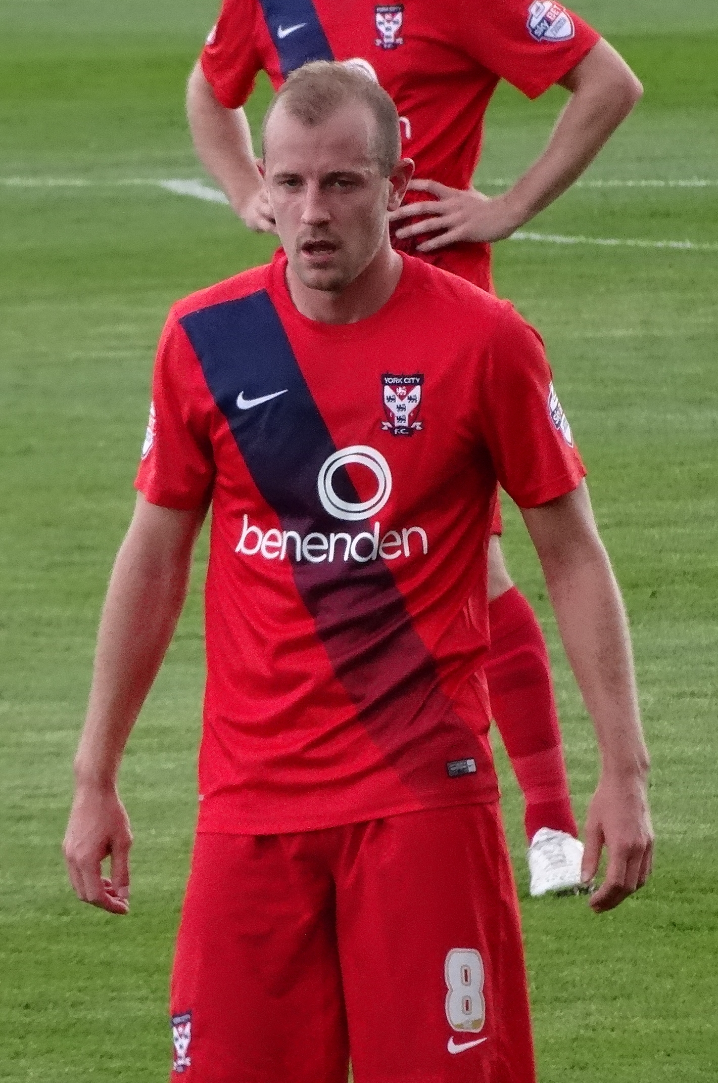 Luke Summerfield playing for York City against Carlisle United at Bootham Crescent, York on 19 September 2015